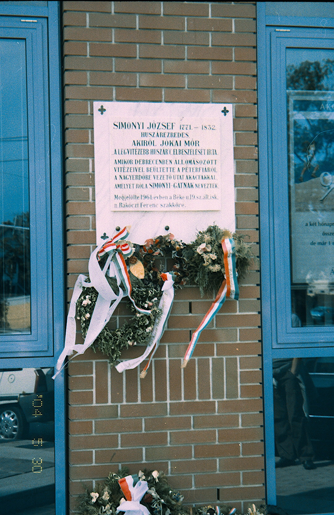 József Simonyi commemorative plaque in Debrecen